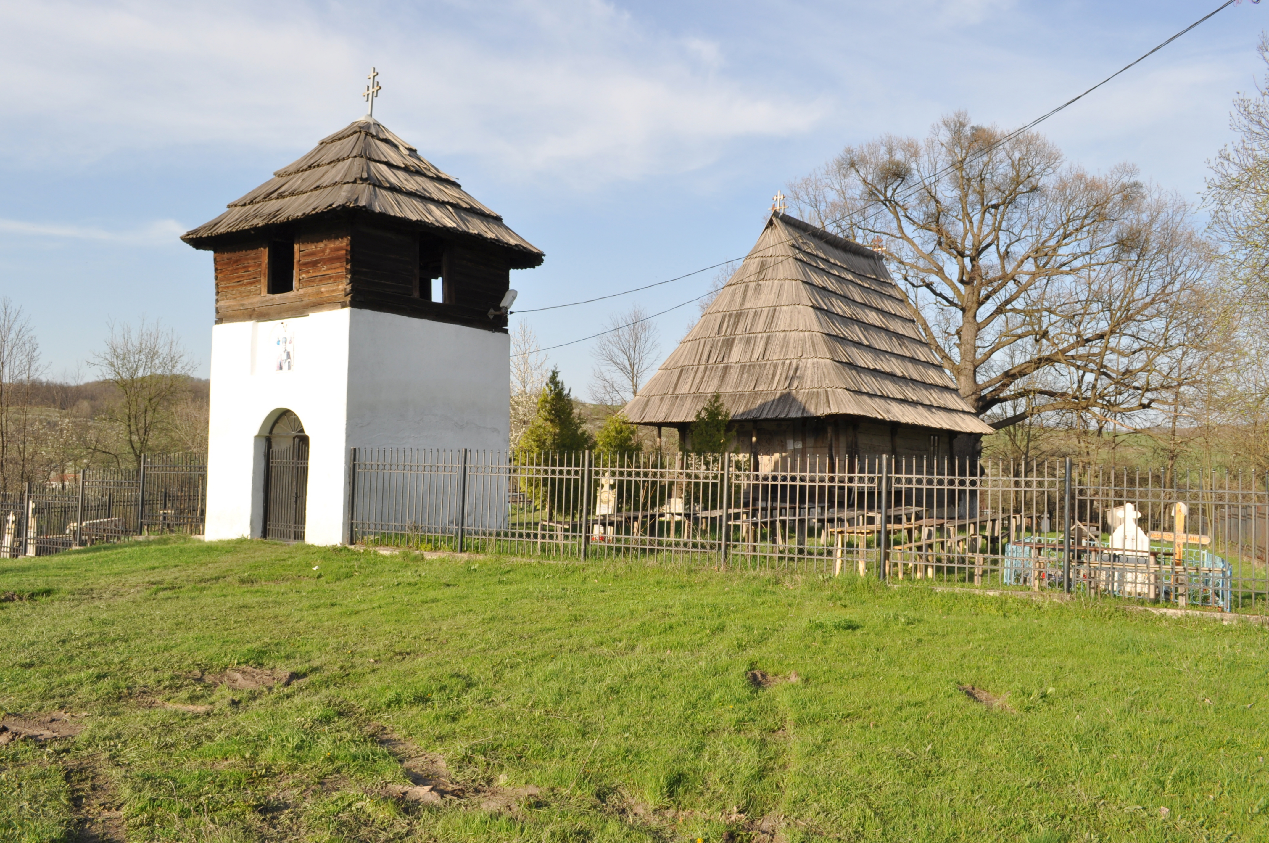 Wooden church in Negomir, Gorj county, Romania